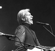 Paul Michiels live in concert.